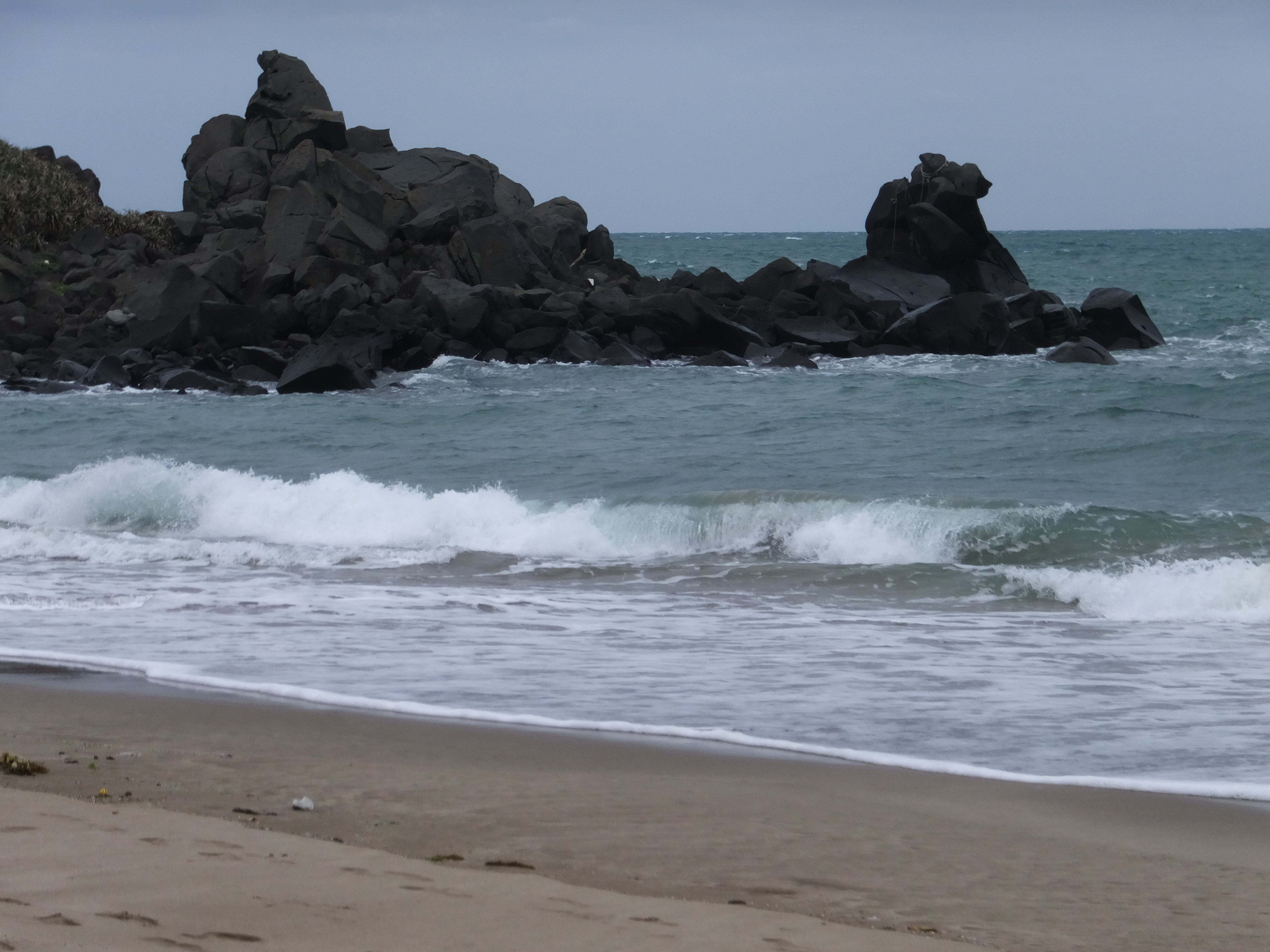 Dapian Point, formerly Tapien Point at Cape Fugui (富貴角), the northernmost point on Taiwan